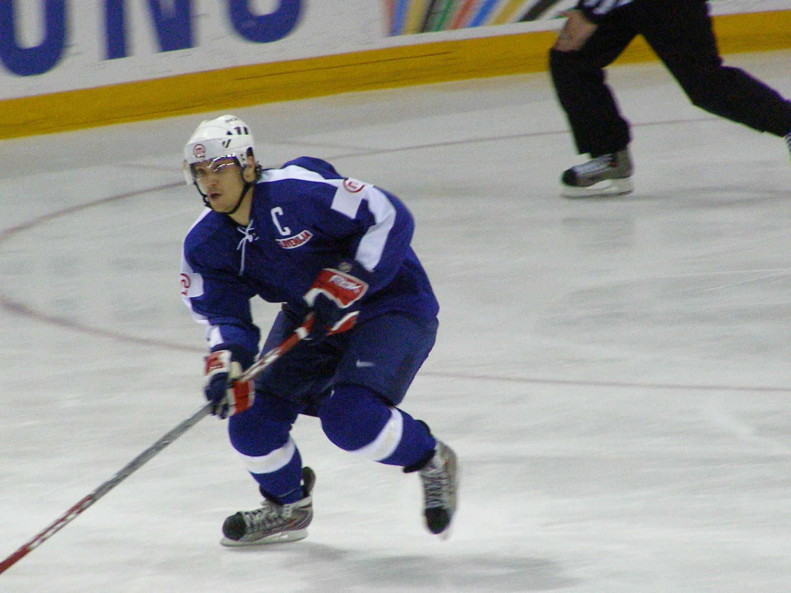 Latvia VS Slovenia (IIHF World Hockey Championship in Halifax NS, May 6 2008)